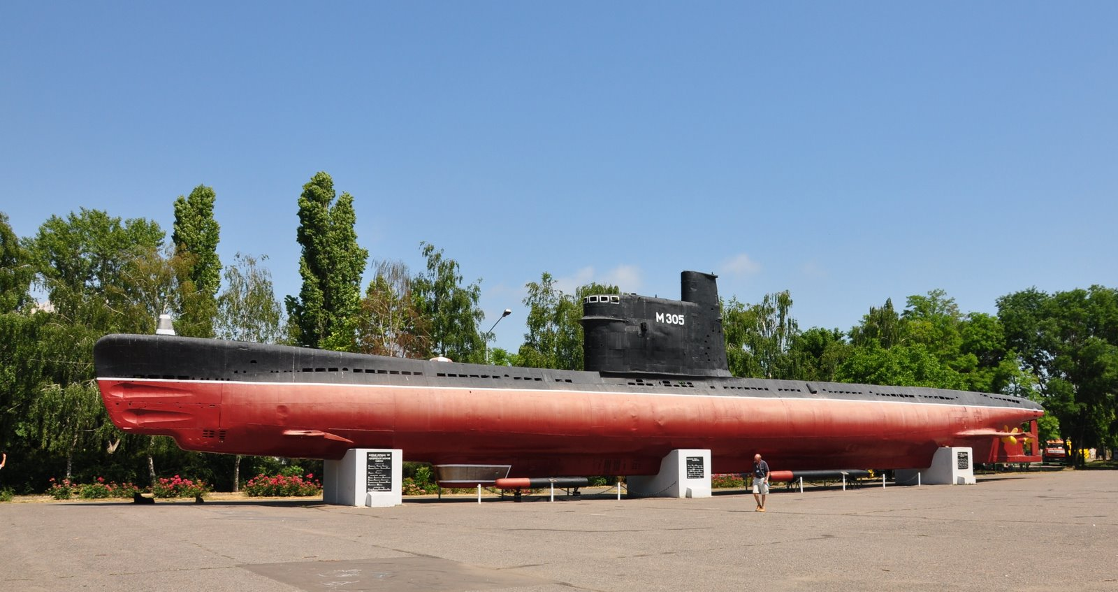 Soviet submarine M-296 of QUebec-class as a memorial in Odessa under name M-305.